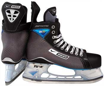 nike bauers ice skating